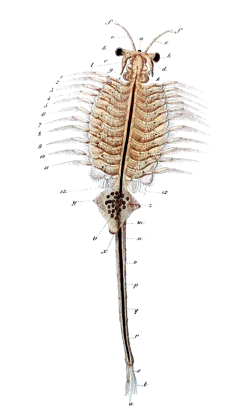 Adult Artemia salina (Branchiopoda: Anostraca).